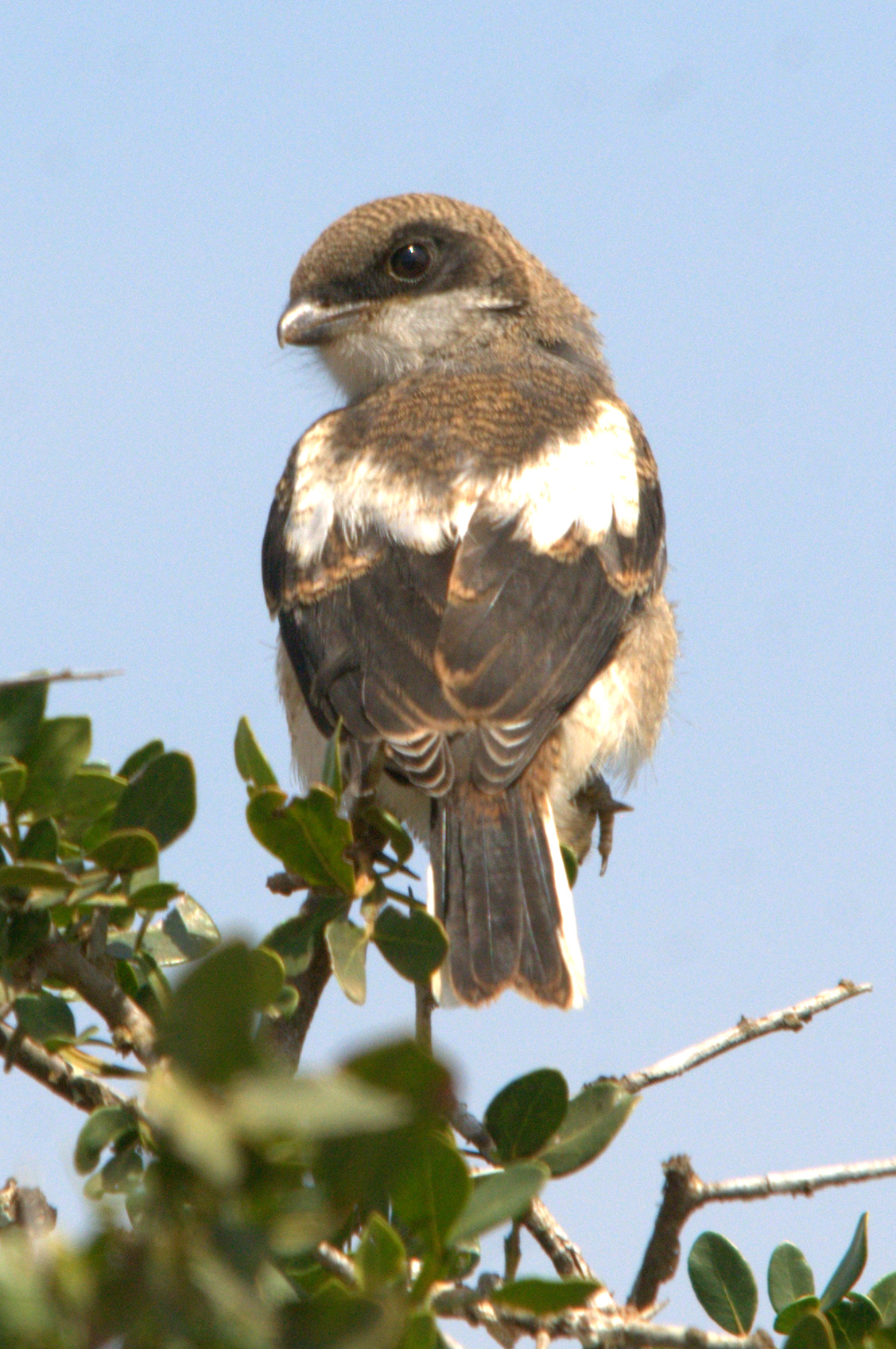 Immature fiscal shrike